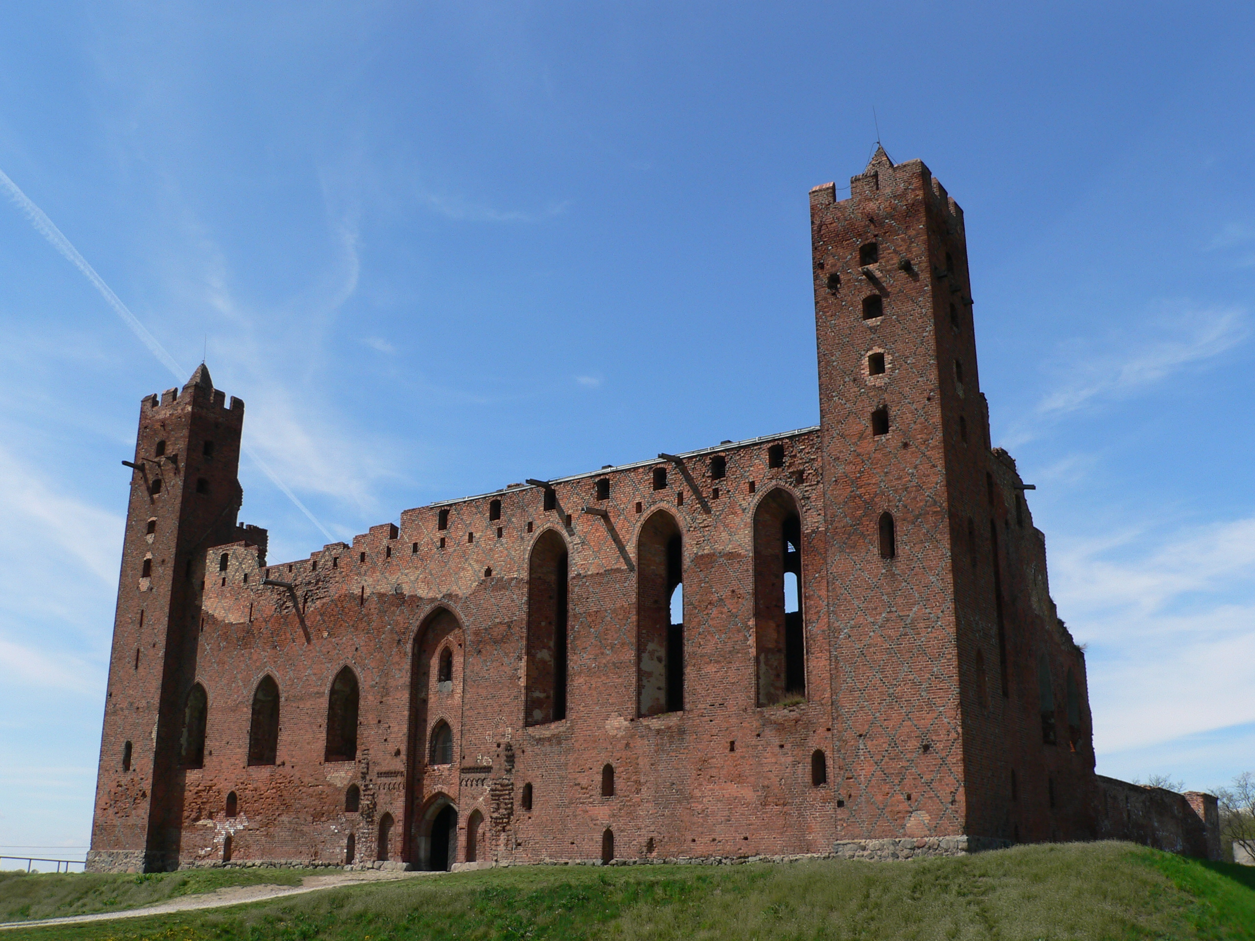 Castle in Radzyn Chelminski